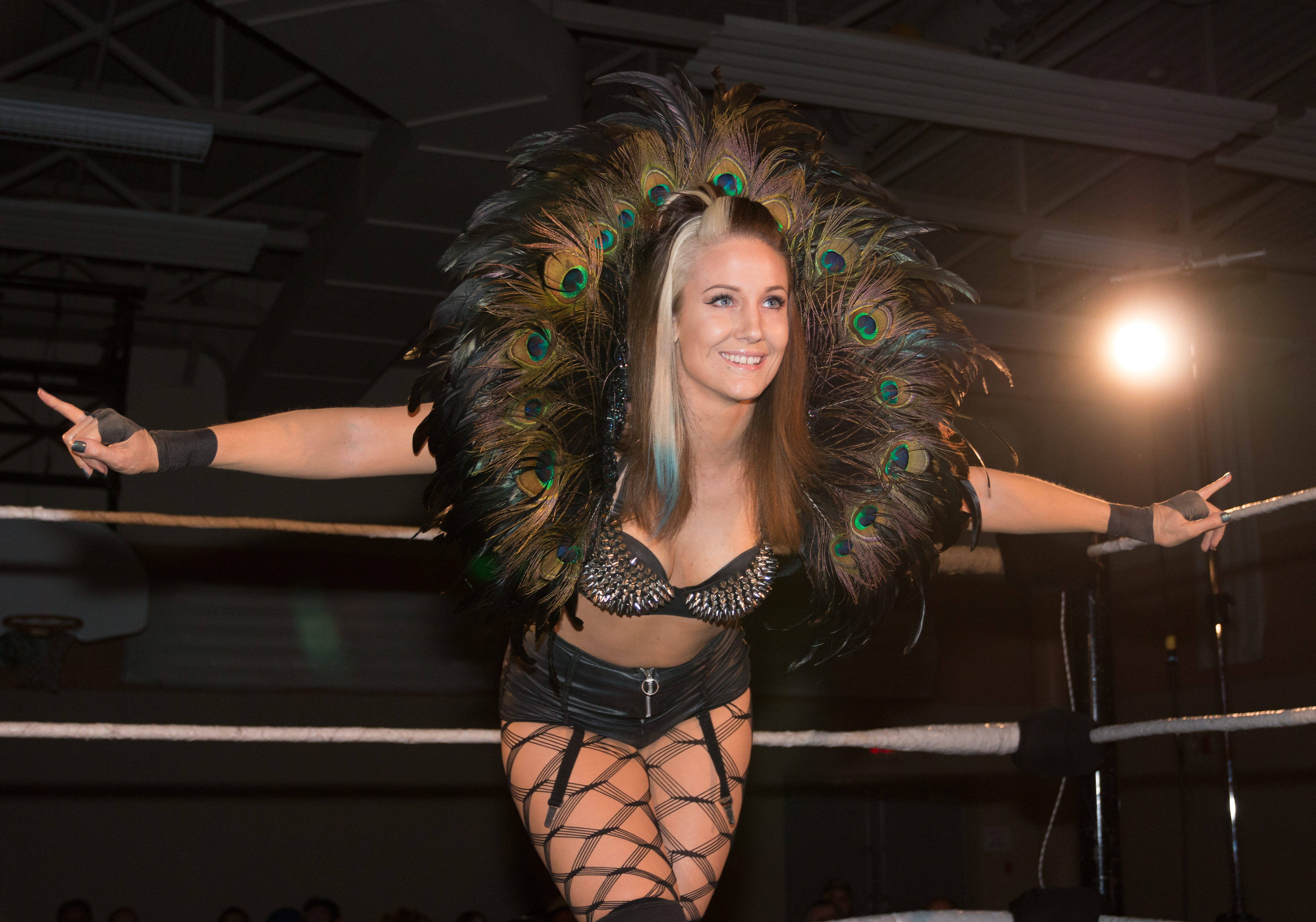 Allysin Kay making her ring entrance at a charity show in Angus, ON